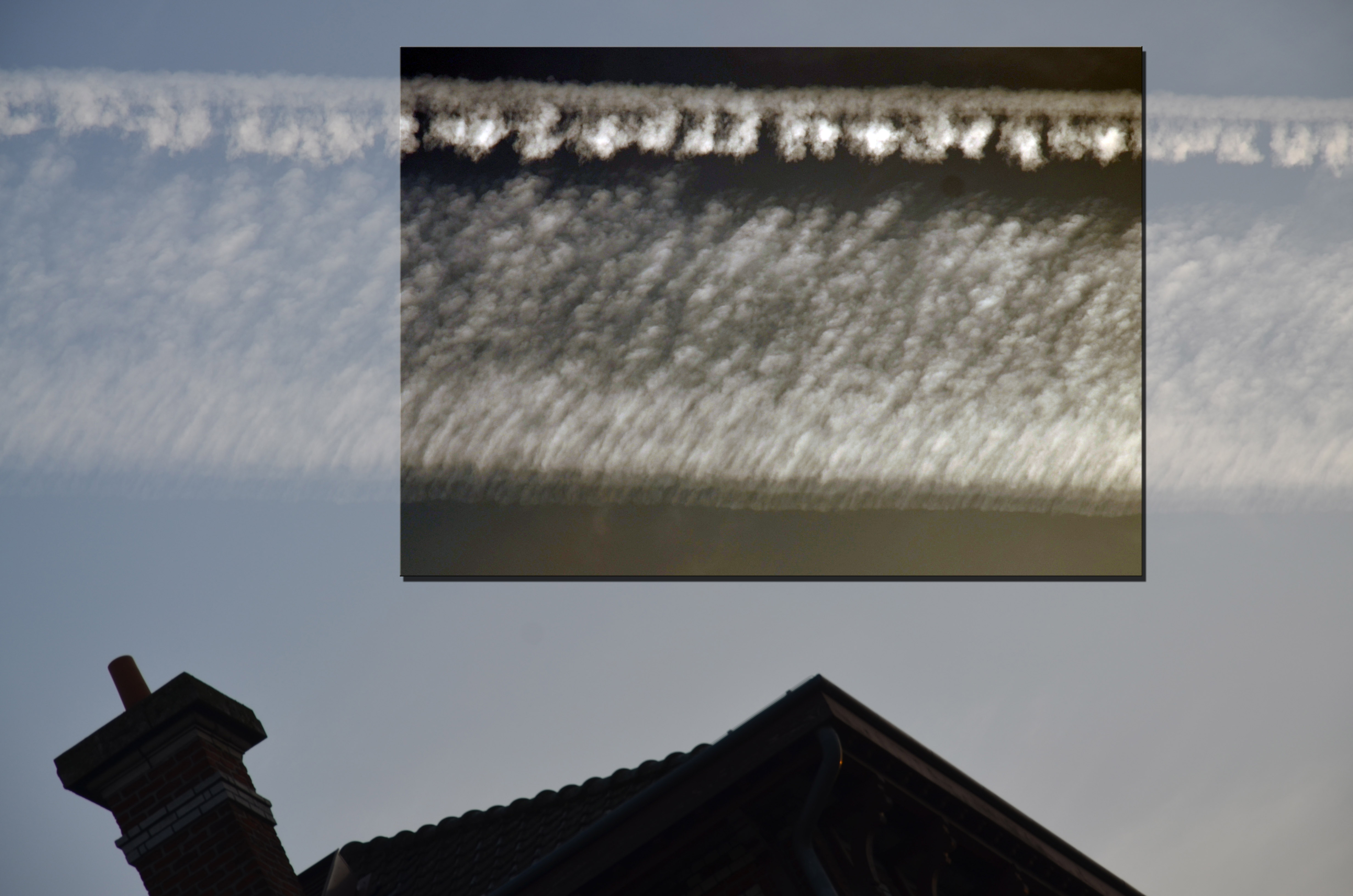 Contrails from aircraft engines, photographed in the early morning in Lille (north of France)